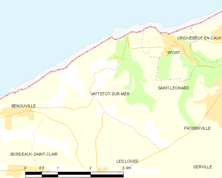 Map of French municipality Vattetot-sur-Mer